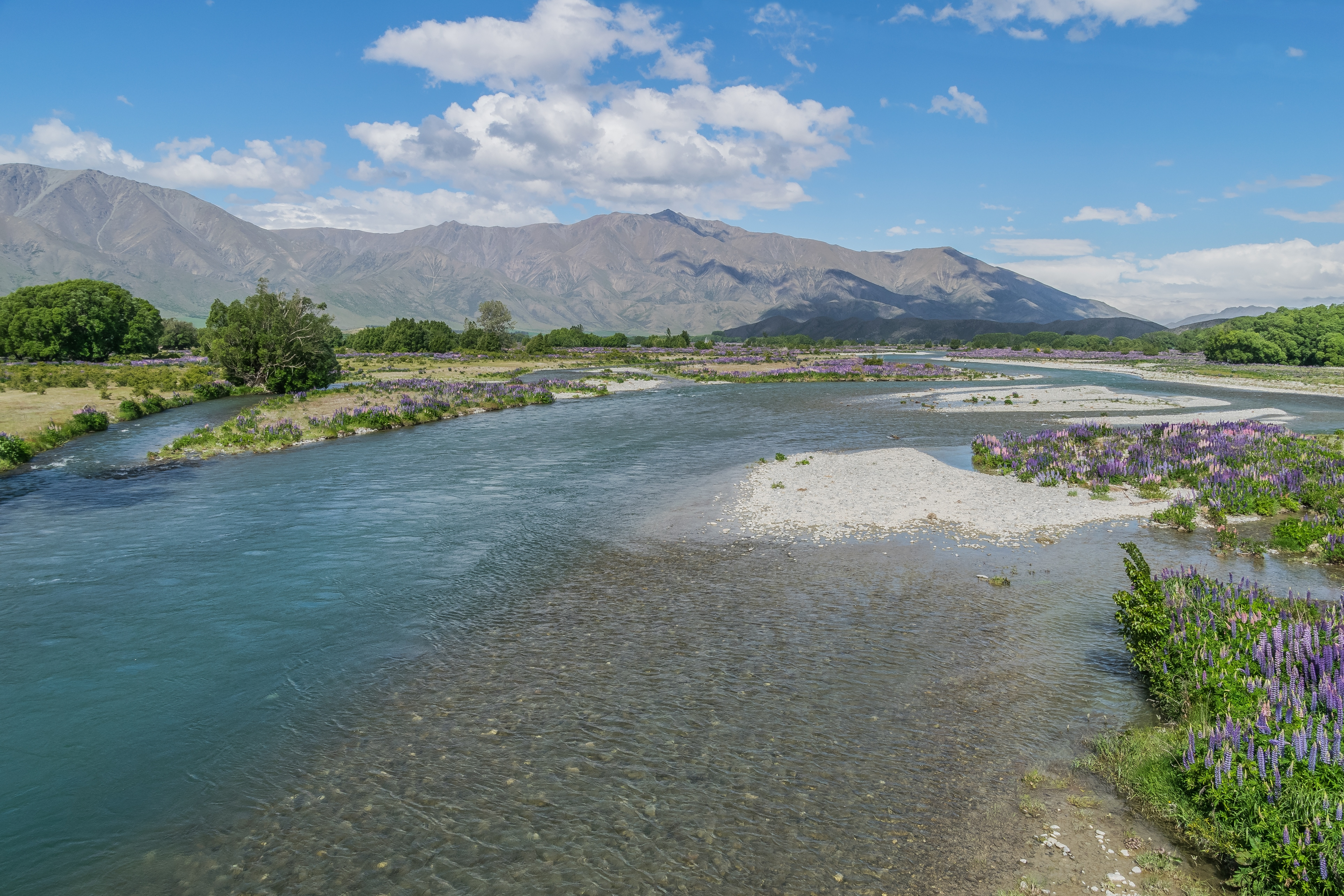 Ahuriri River ner Omarama in Canterbury Region, South Island of New Zealand